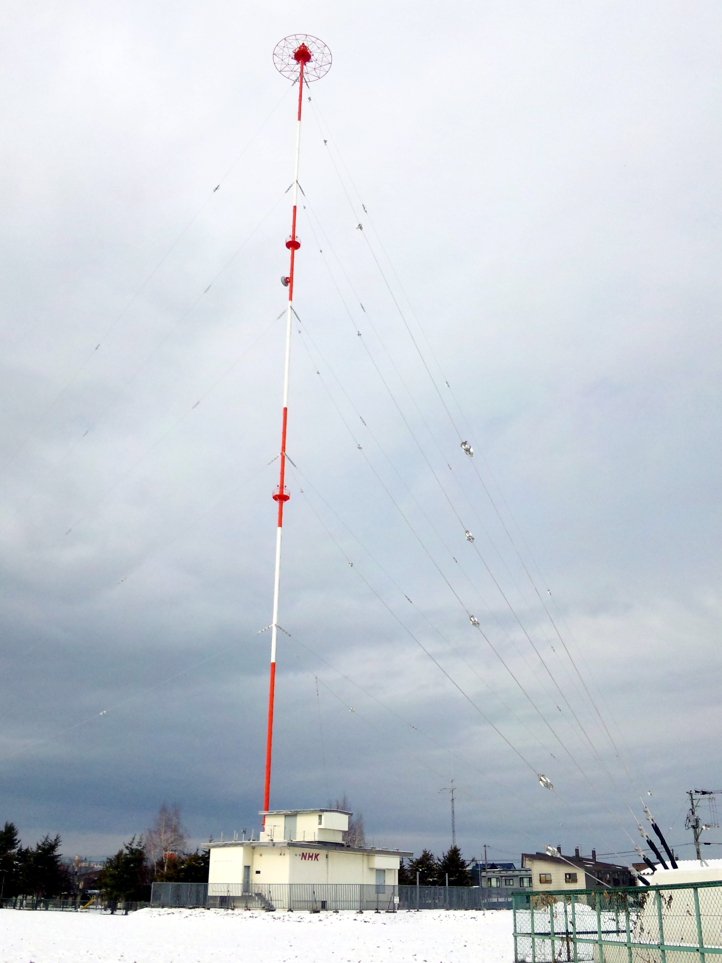 NHK Higashi-Asahikawa Radio Transmitter Station in Asahikawa City, Hokkaido, Japan NHK Radio 1:JOCG 621kHz 3kW NHK Radio 2:JOCC 1602kHz 1kW